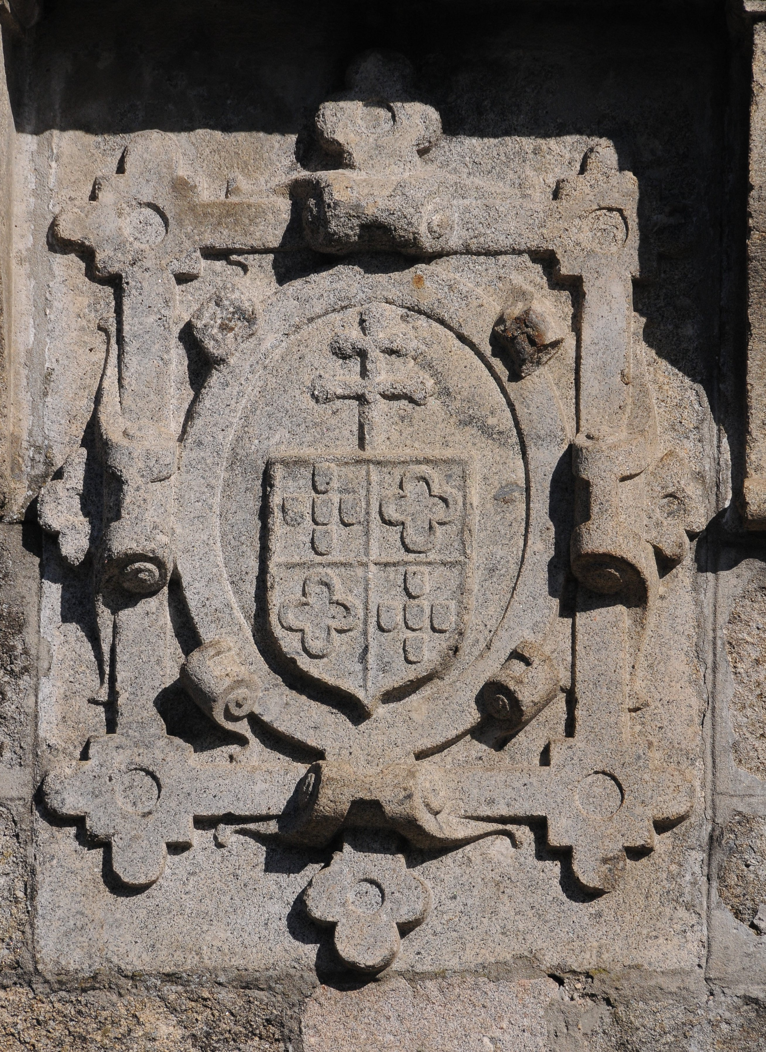 Coats of arms of Diogo de Sousa, archbishop of Braga, in Granginhos Fountain, Cividade, Braga, Portugal.